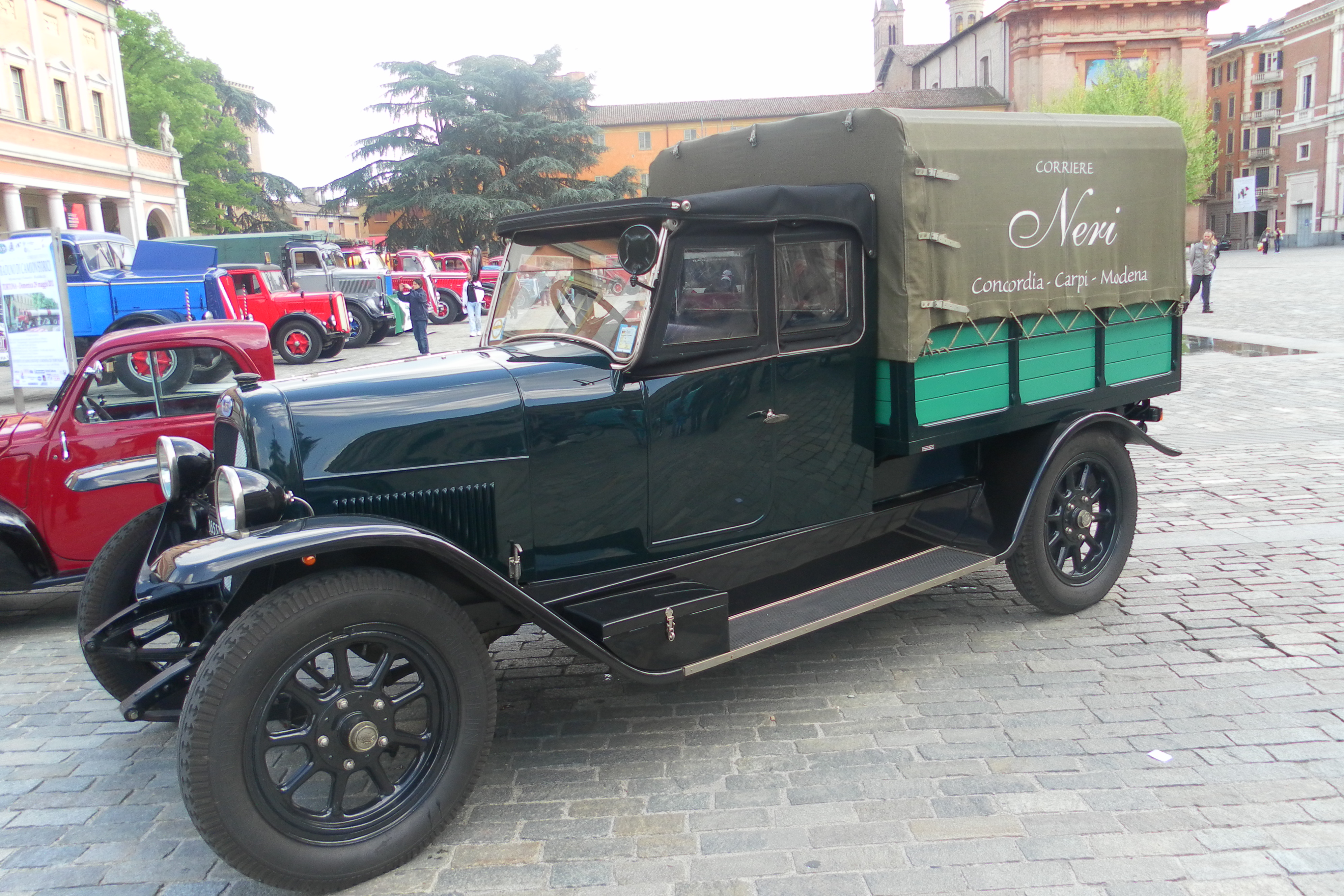 Fiat 505